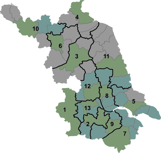 Map of prefectures of Jiangsu Province